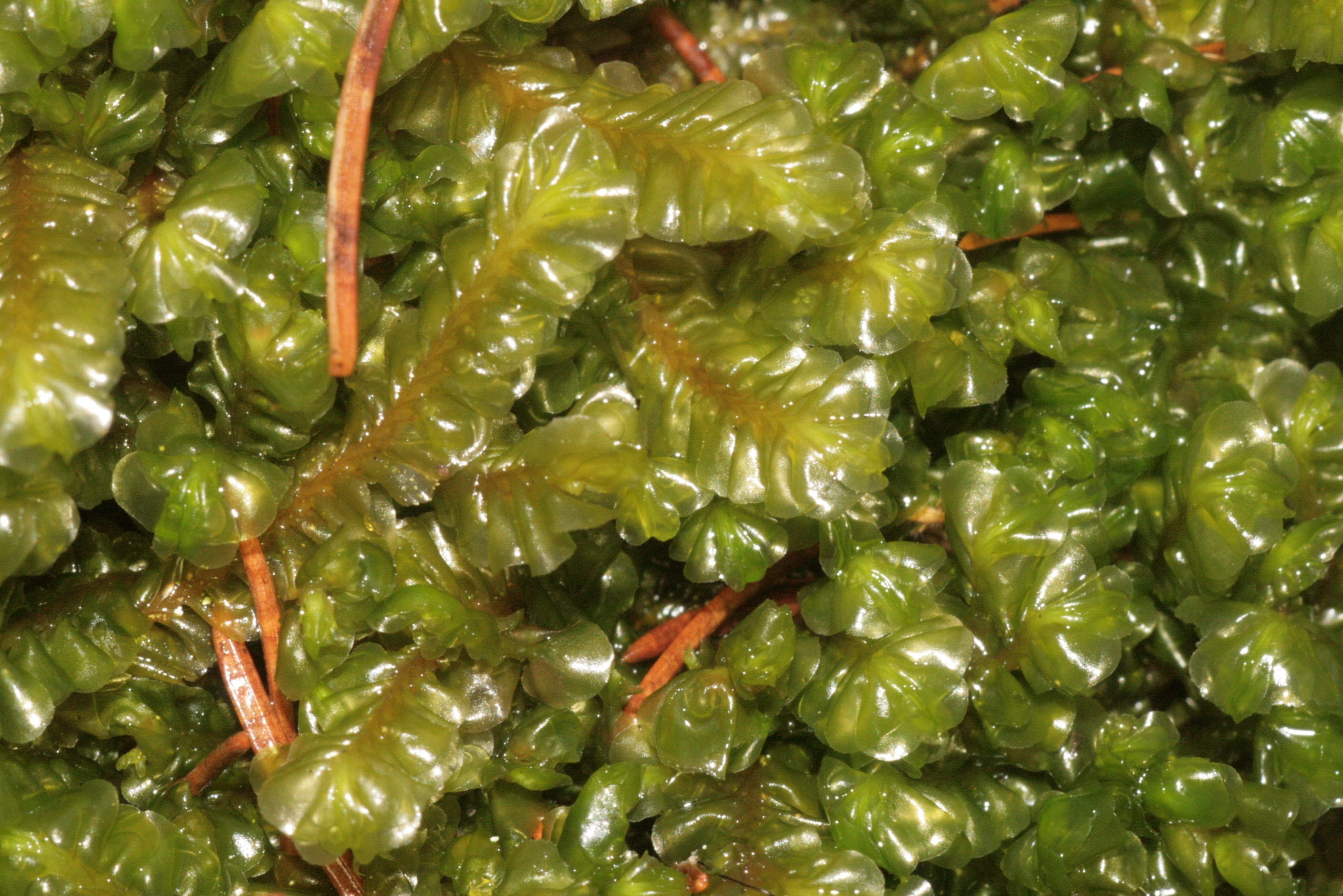 Plagiochila asplenioides